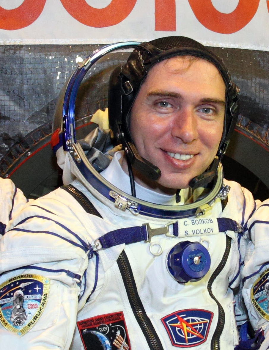 Sergei Volkov –Russian cosmonaut, Soyuz commander and flight engineer– at the Baikonur Cosmodrome in Kazakhstan. This photo was taken in front of his Soyuz TMA-02M spacecraft May 26, 2011 following a dress rehearsal checkout of the Soyuz systems. Volkov together with Fossum and Furukawa are preparing for their launch June 8 (Kazakhstan time) from Baikonur to begin a five and a half month mission on the International Space Station.